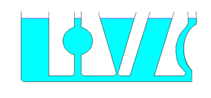 Picture illustrates the assembly of the experiment the hydrostatic paradox